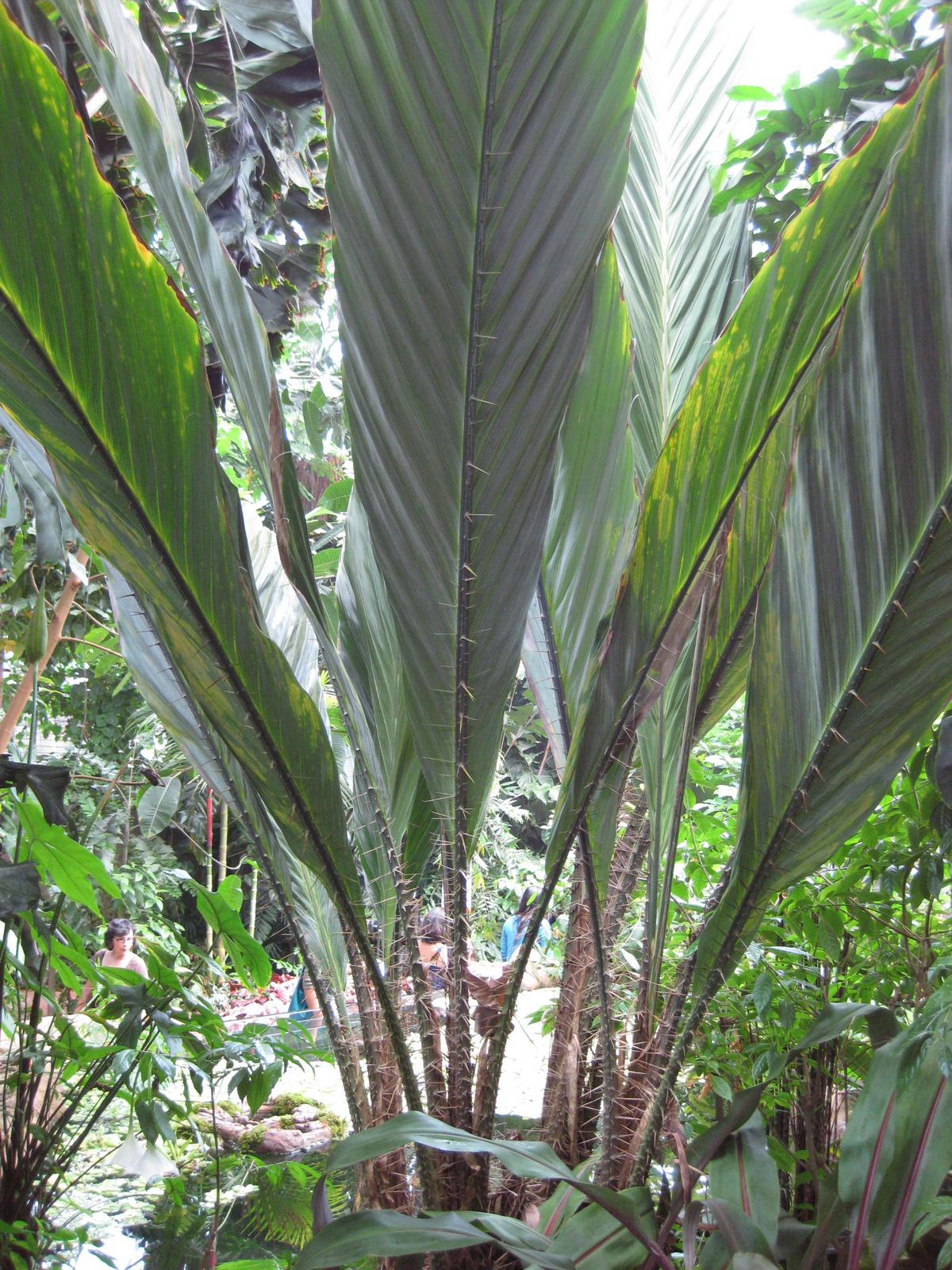 Photographed at Huntington Gardens (Los Angeles, California) in August